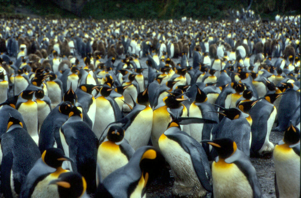 Crozet's port's beach. Penguin colony.